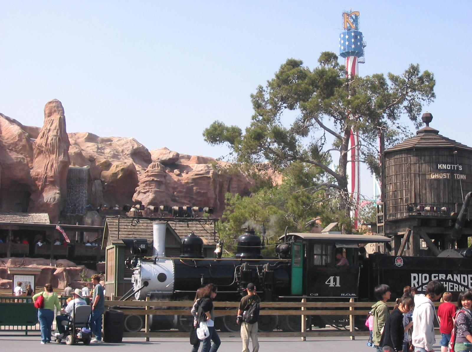 Archetypical Knott's Berry Farm / Calico Mine Ride, steam train, giant red-and-white-striped pole with a neon "K" on top... All that's missing is the Log Ride. Ghost Town, Knott's Berry Farm, Buena Park, California